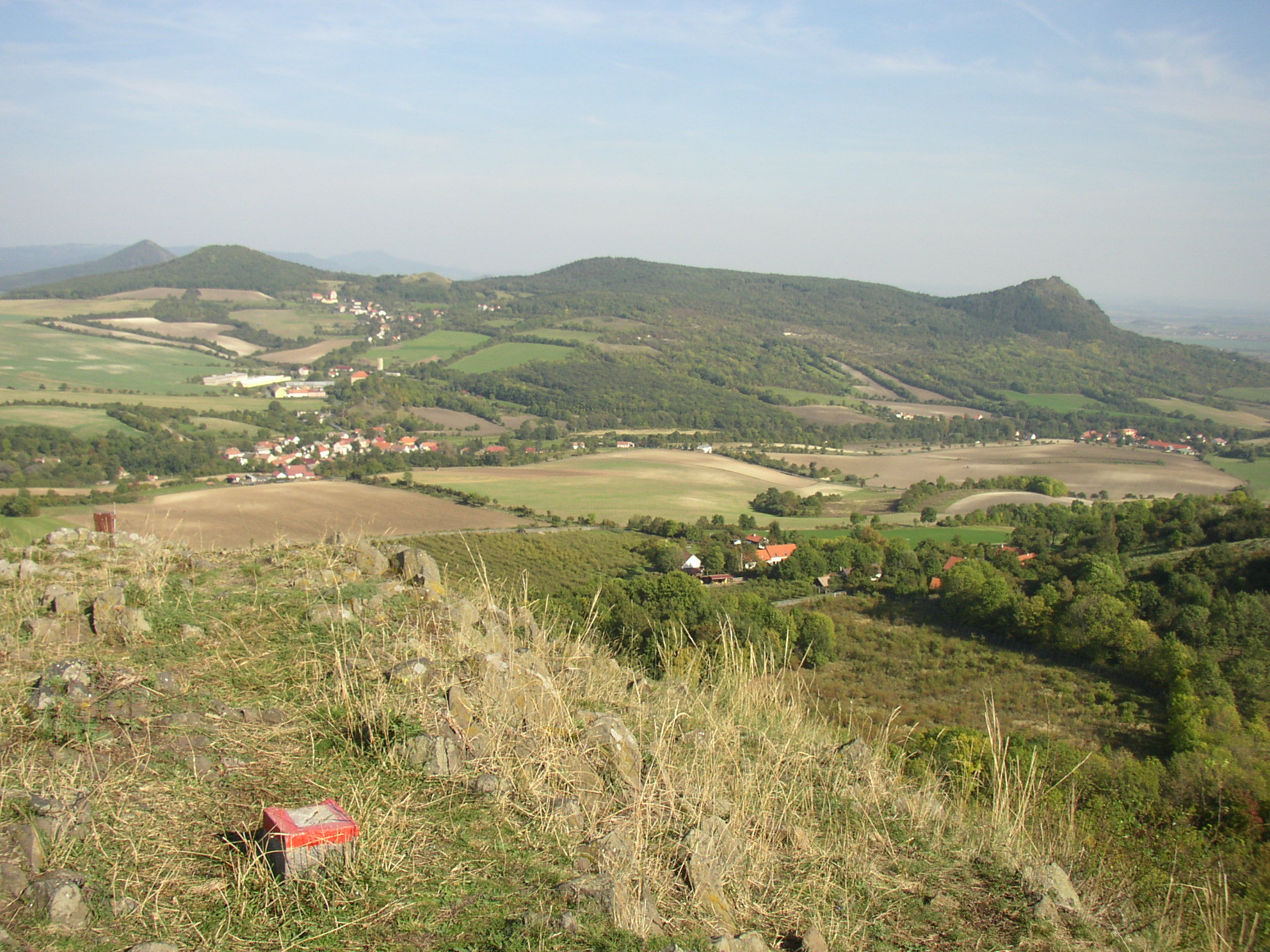 View from summit of Plešivec (477 m) in České středohoří Mts. towards east. In the foreground hamlet of Chrastná with wide valley of the Modla stream beyond. In the valley on the left village of Vlastislav with castle tower and chateau visible. On the right side there lies village of Teplá. Hills on the horizon left to right: Boreč (446 m), Sutomský vrch (505 m), at centre Jezerka (487 m) and Košťál (aka Košťálov, 481 m) with another castle ruin.